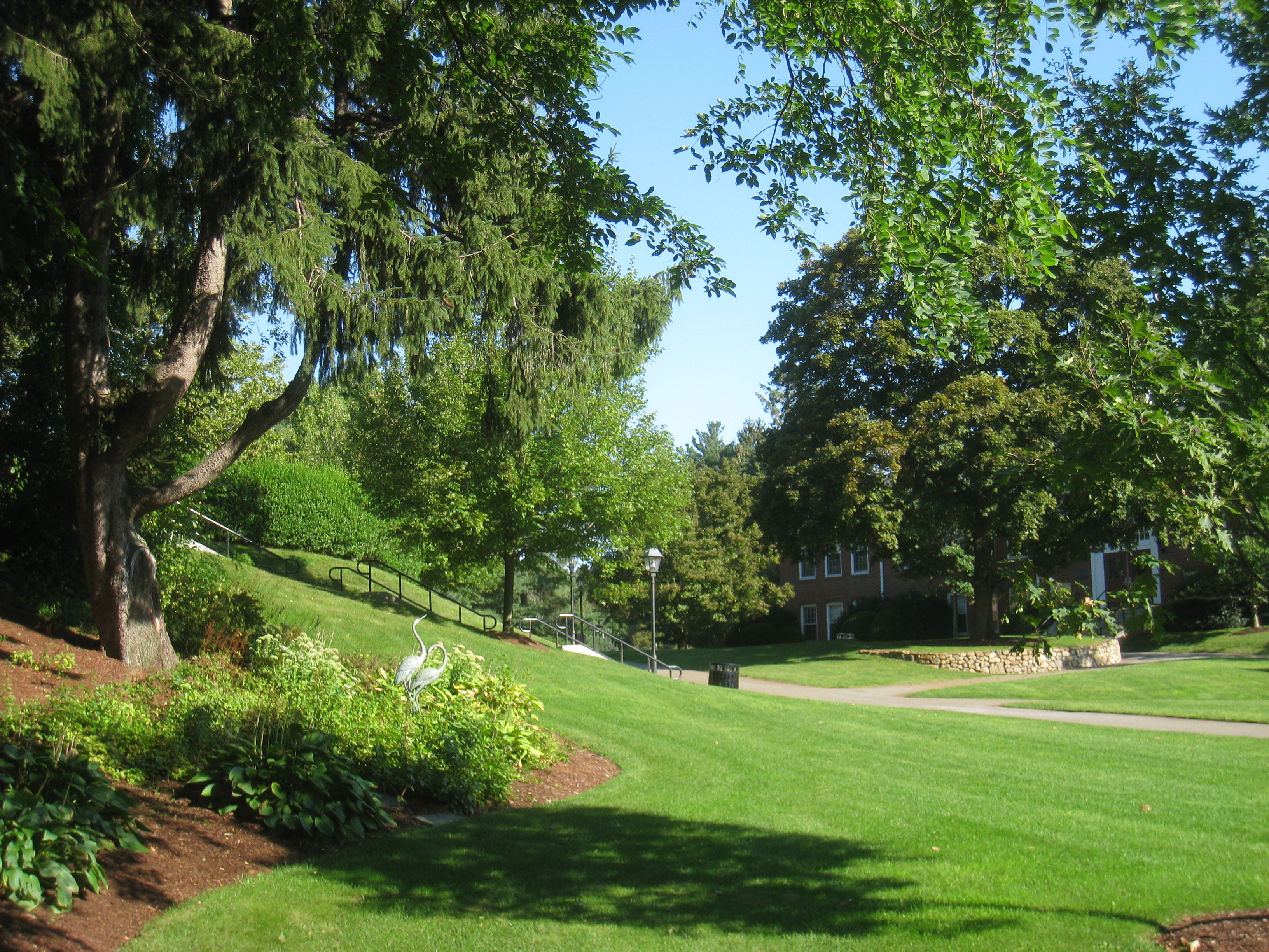 Belmont Hill School, Belmont, Massachusetts, USA.